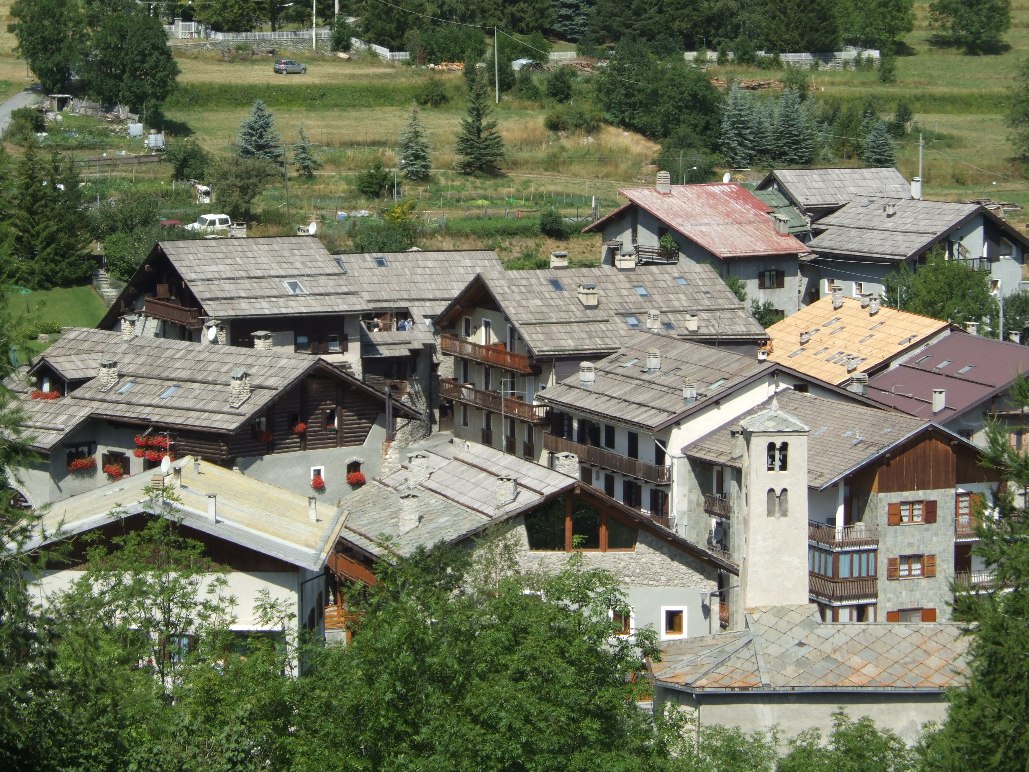 Les Arnauds (Bardonecchia - Italy)